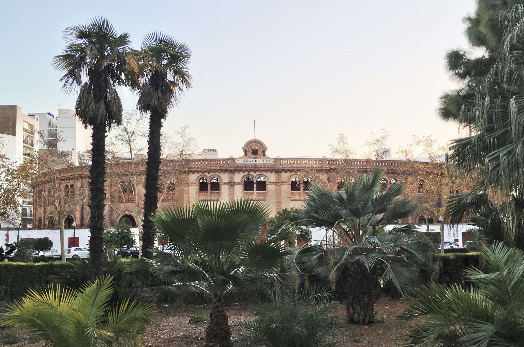 View from Parc Rialta to the bullring in Castellón